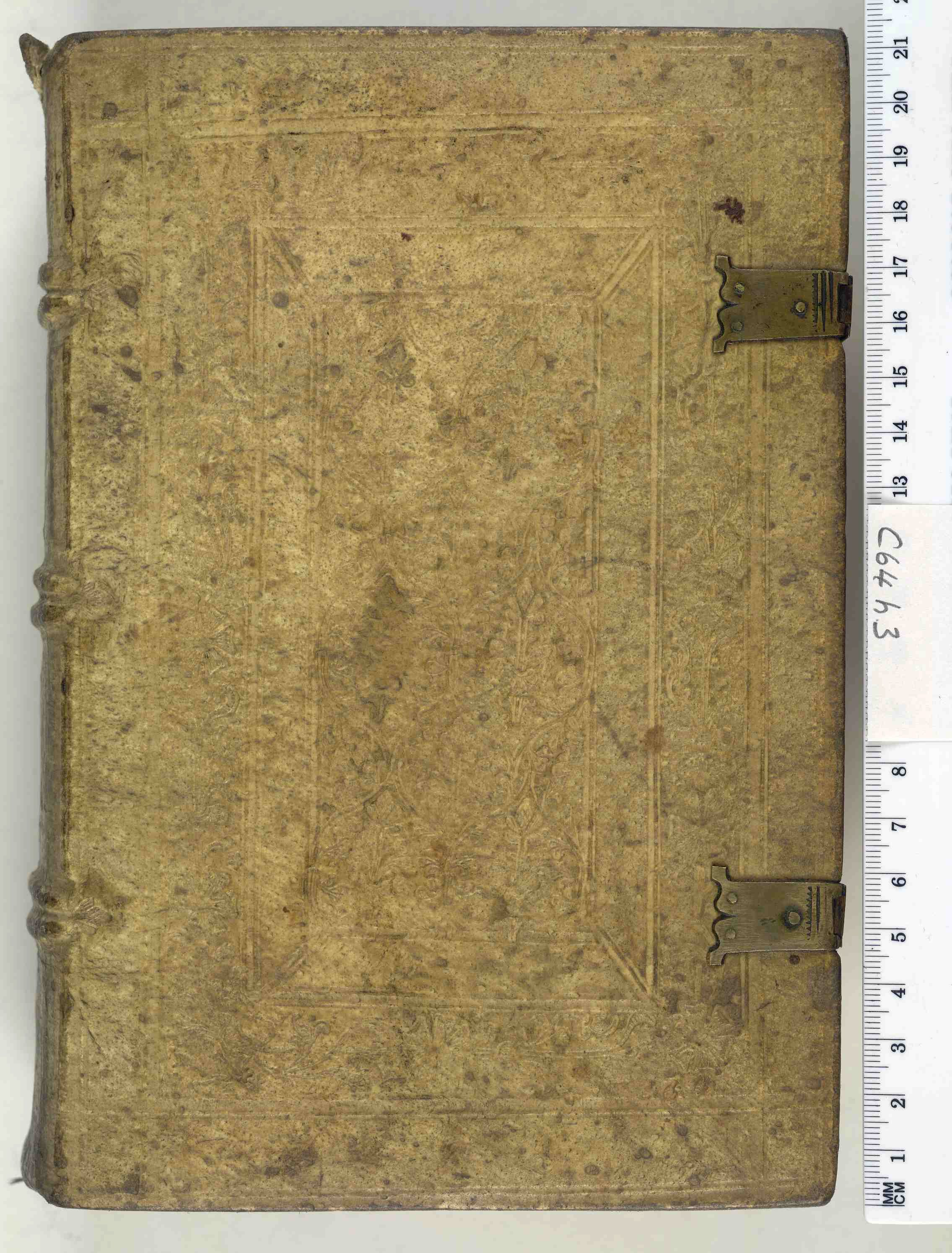 Style: Panel design; Caption: Upper cover; Colour: White / cream; Edge: Unspecified